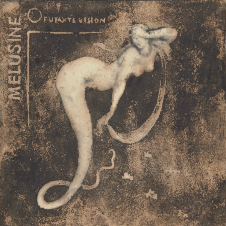 "Mélusine" (1900) : print / gypsography on Japanese paper, 20 x 13 cm (sheet, 7.87 x 5.12 inches), by Pierre Roche (1855-1922).